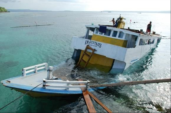 Wreckage of MV Acita 03 being evacuated from the location of the accident